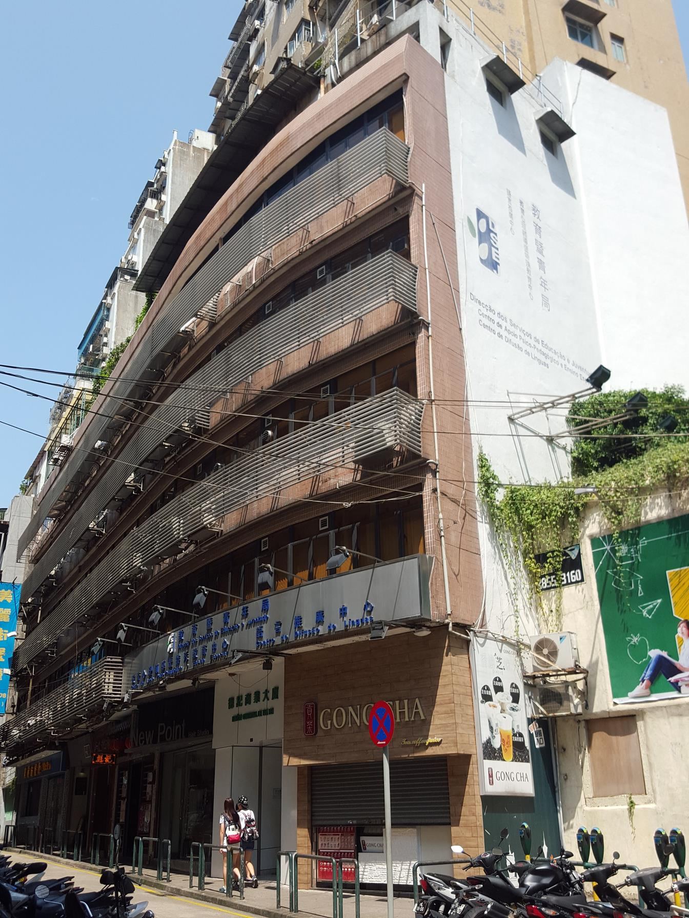 DSEJ Language Promotion Center